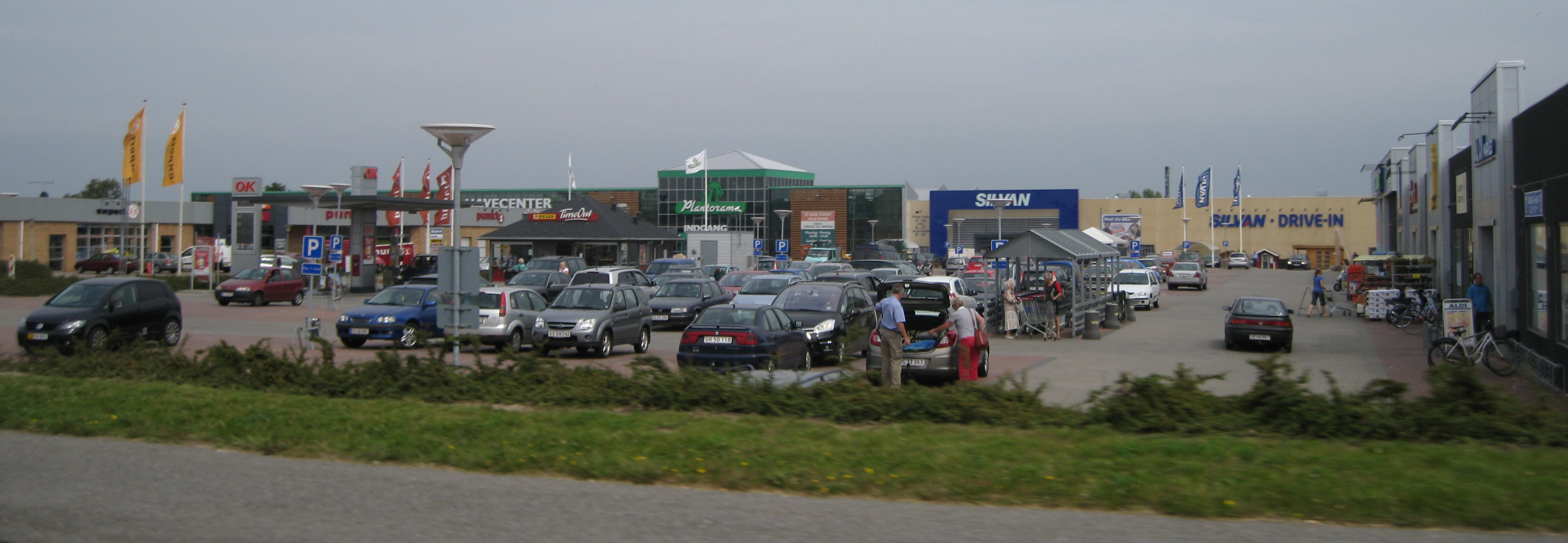 Center Øst, Sønderborg, Denmark